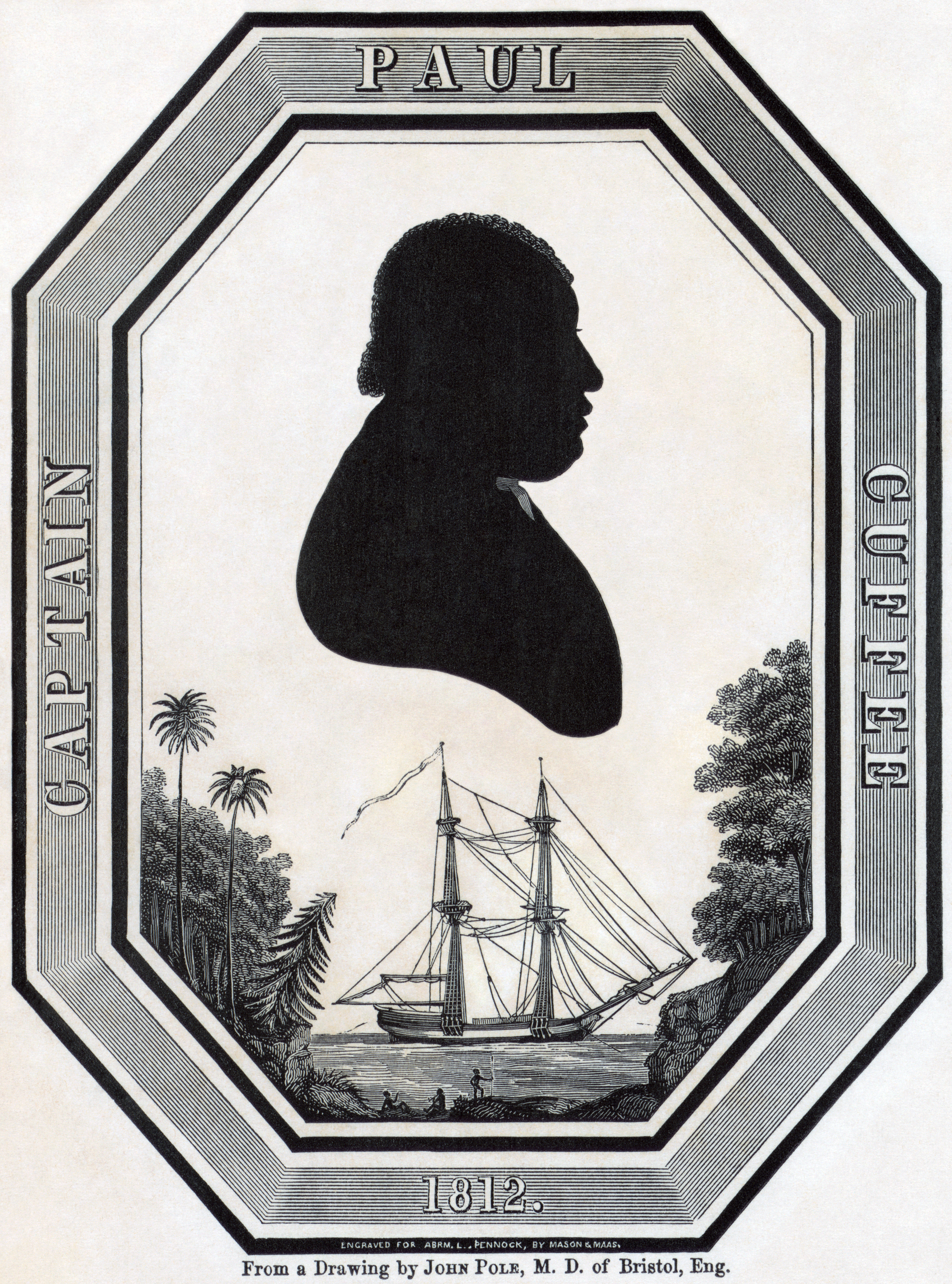 Captain Paul Cuffee, Print shows a silhouette head-and-shoulders portrait of Paul Cuffe, a prosperous businessman and sea captain, above a ship docked in a tropical region, possibly Sierra Leone. 1 print : engraving.